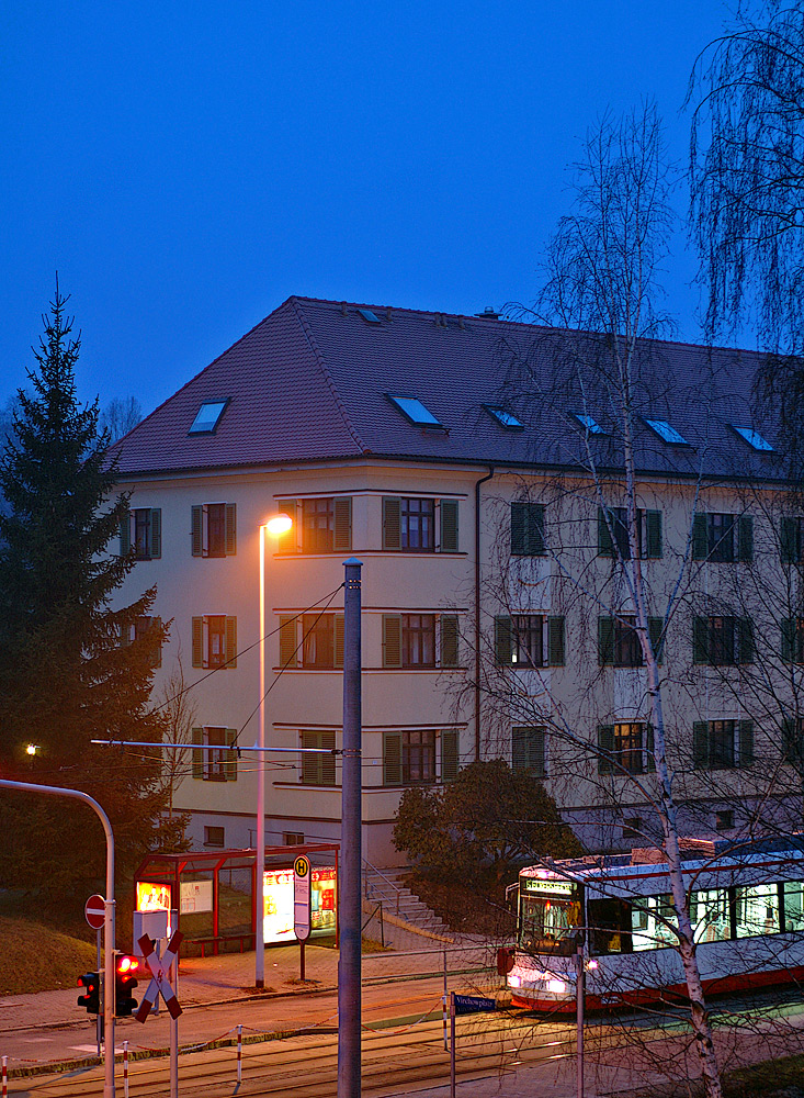 This image shows a blue hour-image of Zwickau, Germany. It was taken 26 minutes before sunrise.